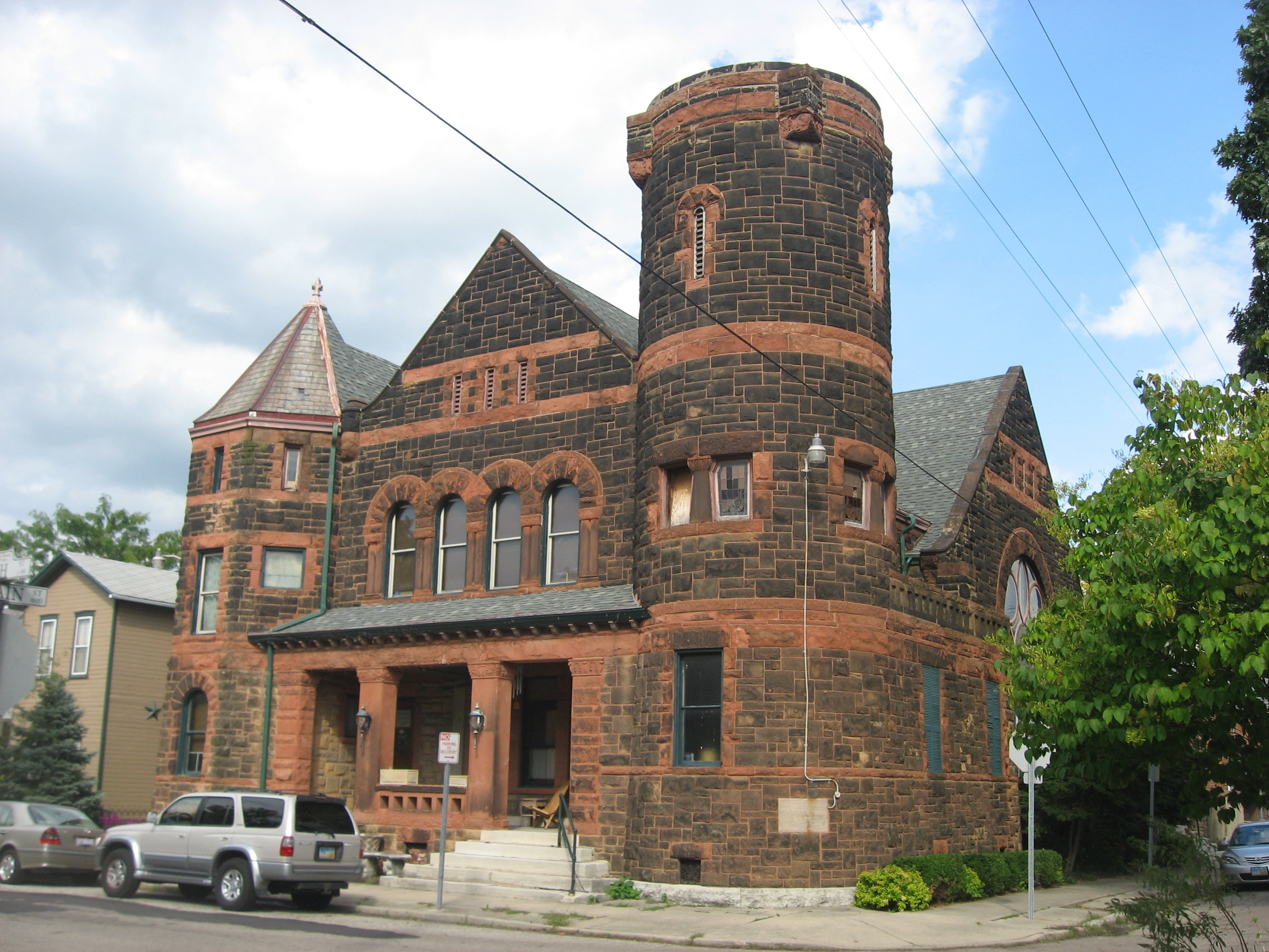 A church on the northeastern corner of the intersection of High and McLain Streets in Dayton, Ohio, United States. It is part of the Saint Anne's Hill Historic District, a historic district that is listed on the National Register of Historic Places.